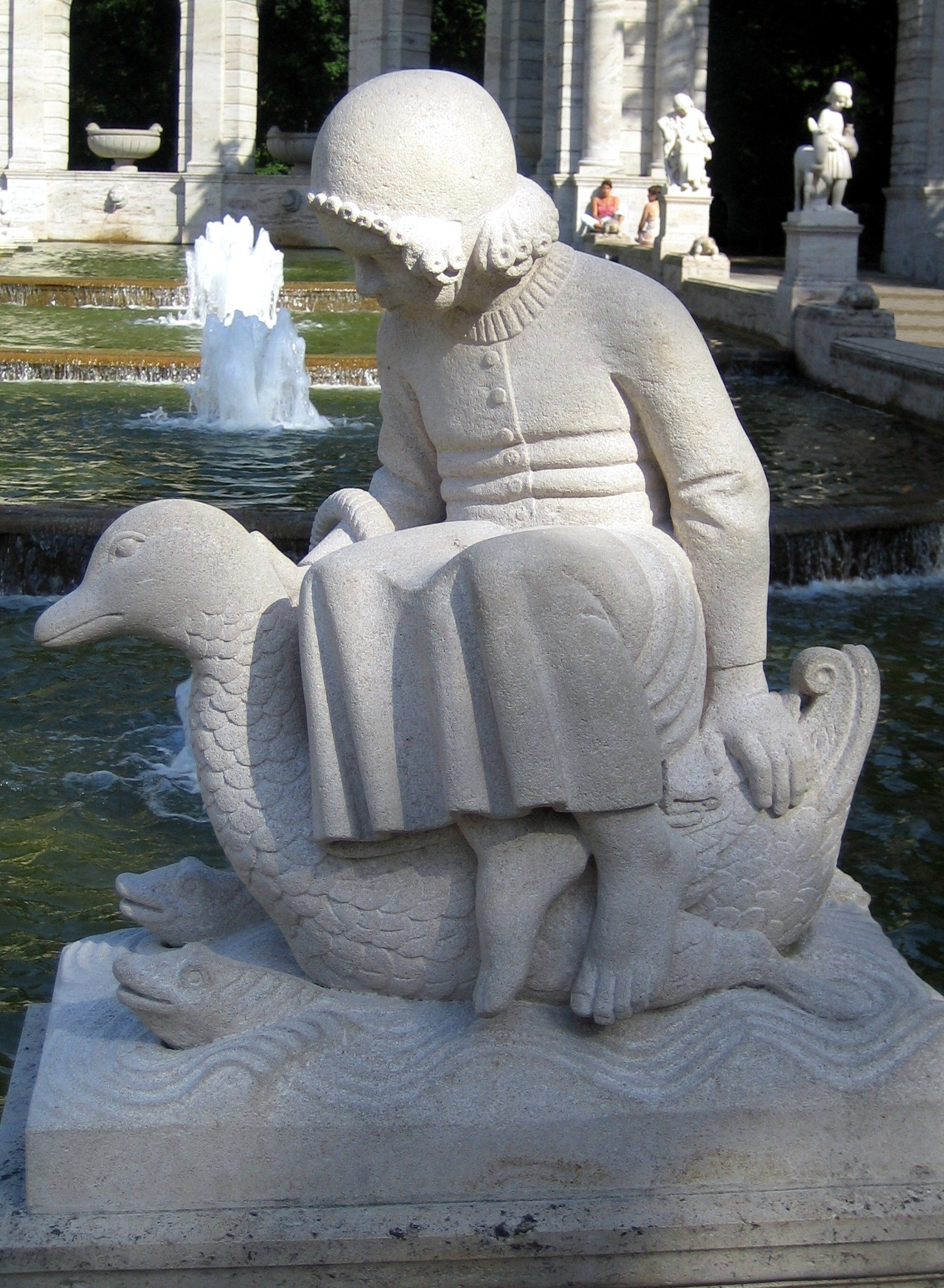 Friedrichshain locality of Berlin: Märchenbrunnen (fairy tale fountain) in the Volkspark Friedrichshain park, sculpture of «Gretel» on a second version of the Brothers Grimm fairy tale «Hansel and Gretel» by Ignatius Taschner.